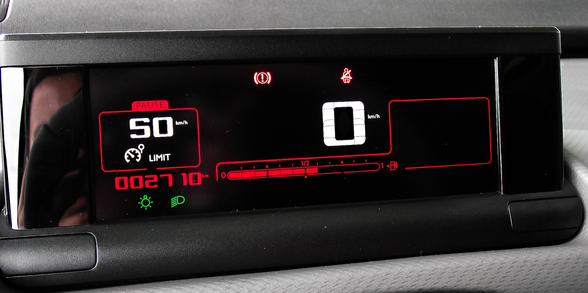 2014 Citroën C4 Cactus Feel Edition PureTech e-THP 110 Instrument Cluster